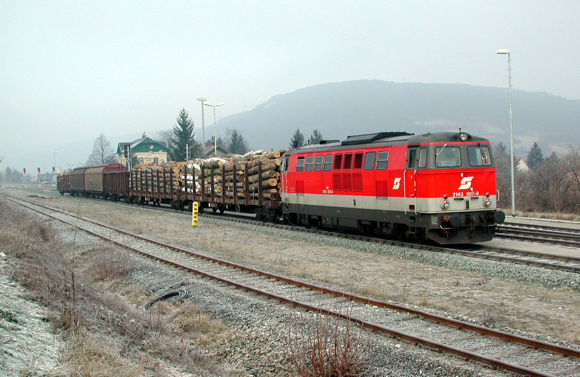 ÖBB Goods train with 2143 007-9 in Wöllersdorf station, Lower Austria